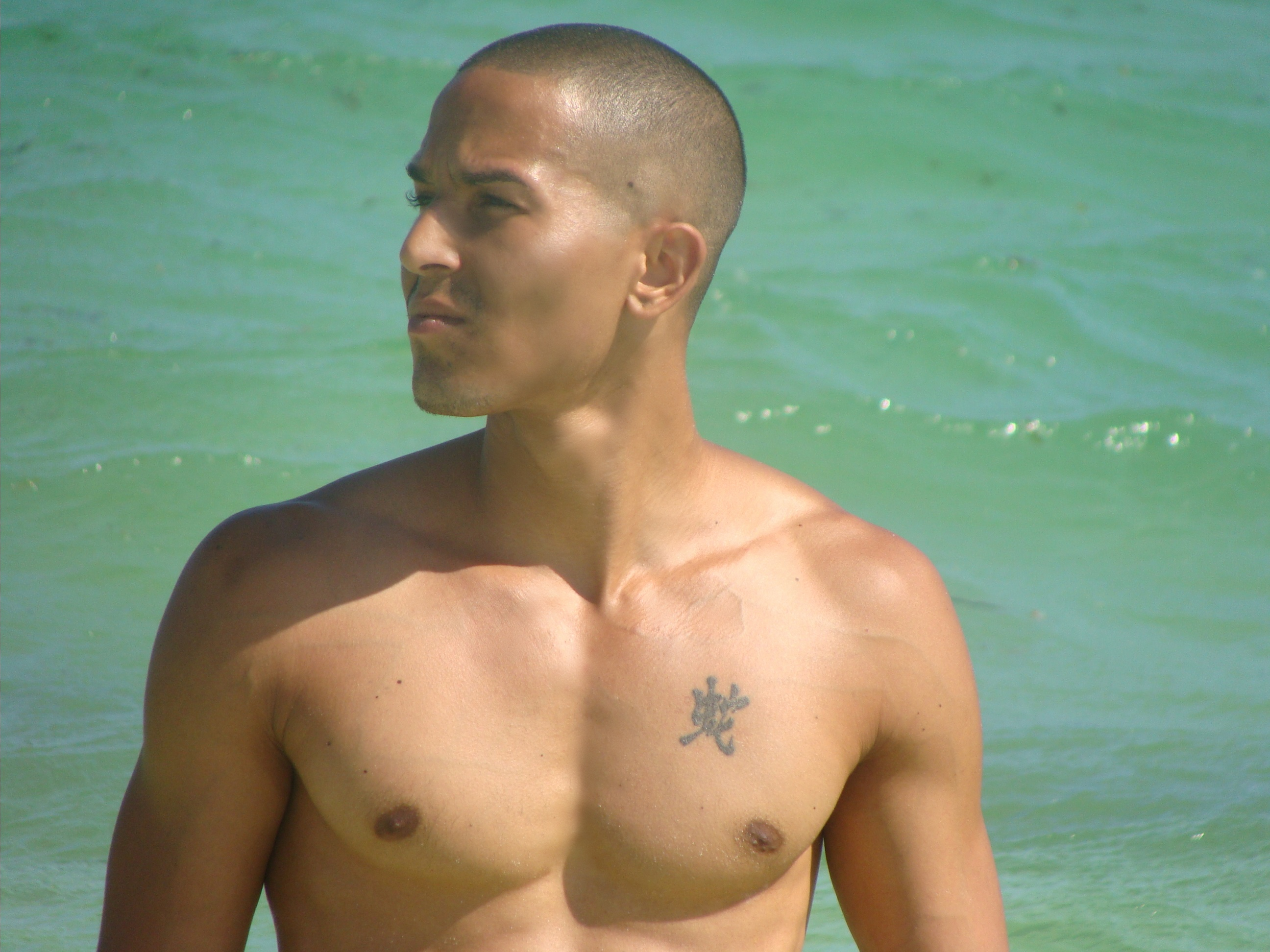 Patrick Miller on the kenyan-beach